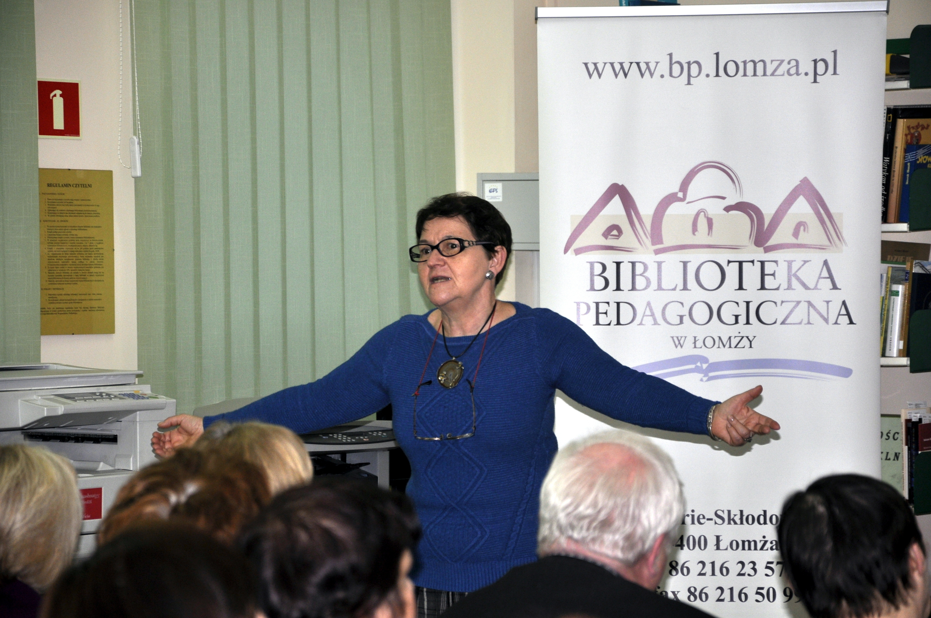 Opening of Picture of the Year exhibition in Pedagogic Library in Łomża, 2015-11-24